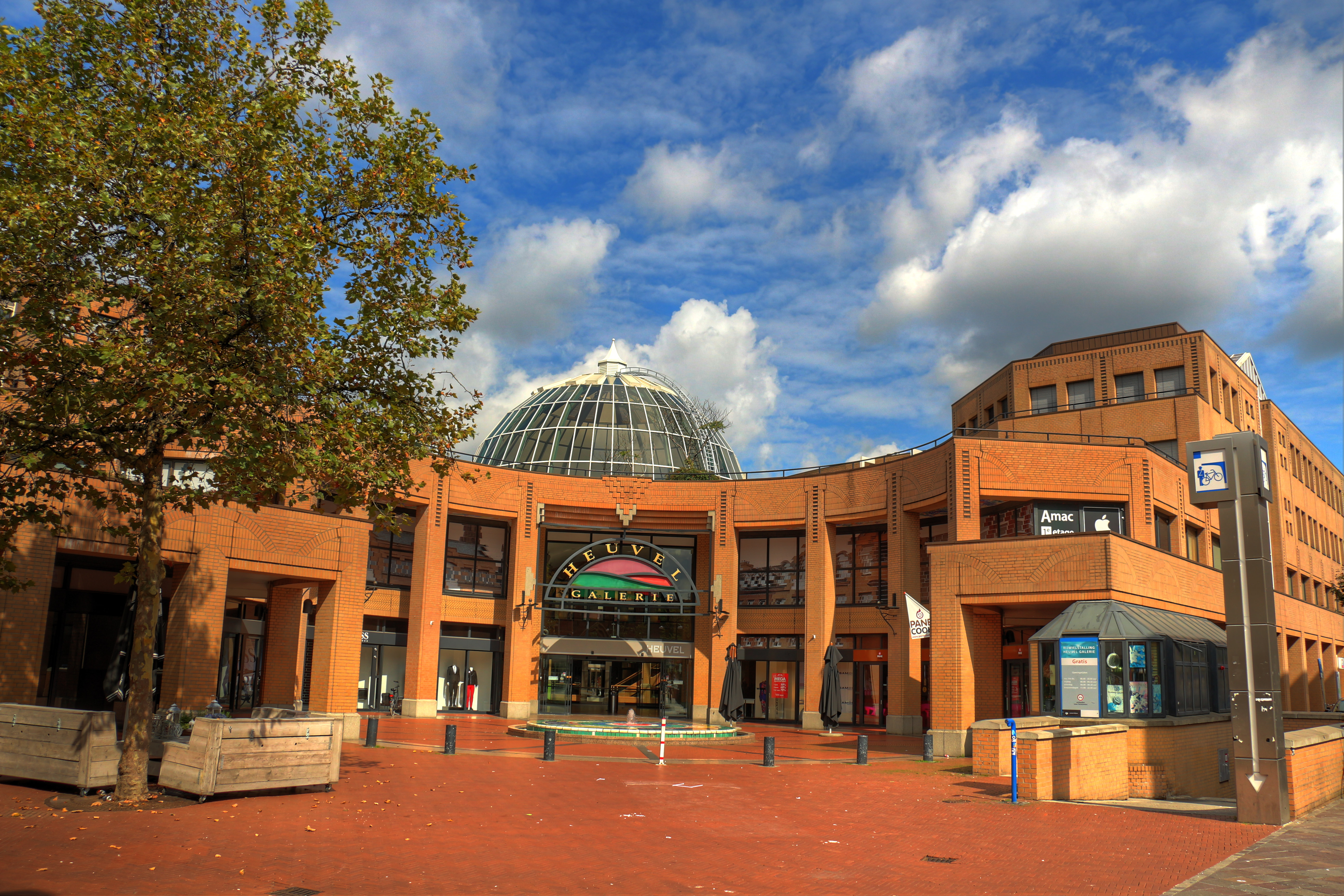 The Heuvel Galerie first opened its doors in 1992. This shopping mall, designed by the German architect Walter Brune, is located right at the heart of Eindhoven's center. It accommodates more than a hundred shops, cafés and restaurants. The Heuvel Galerie is totally covered, easily accessible and can be reached directly from the underground car park